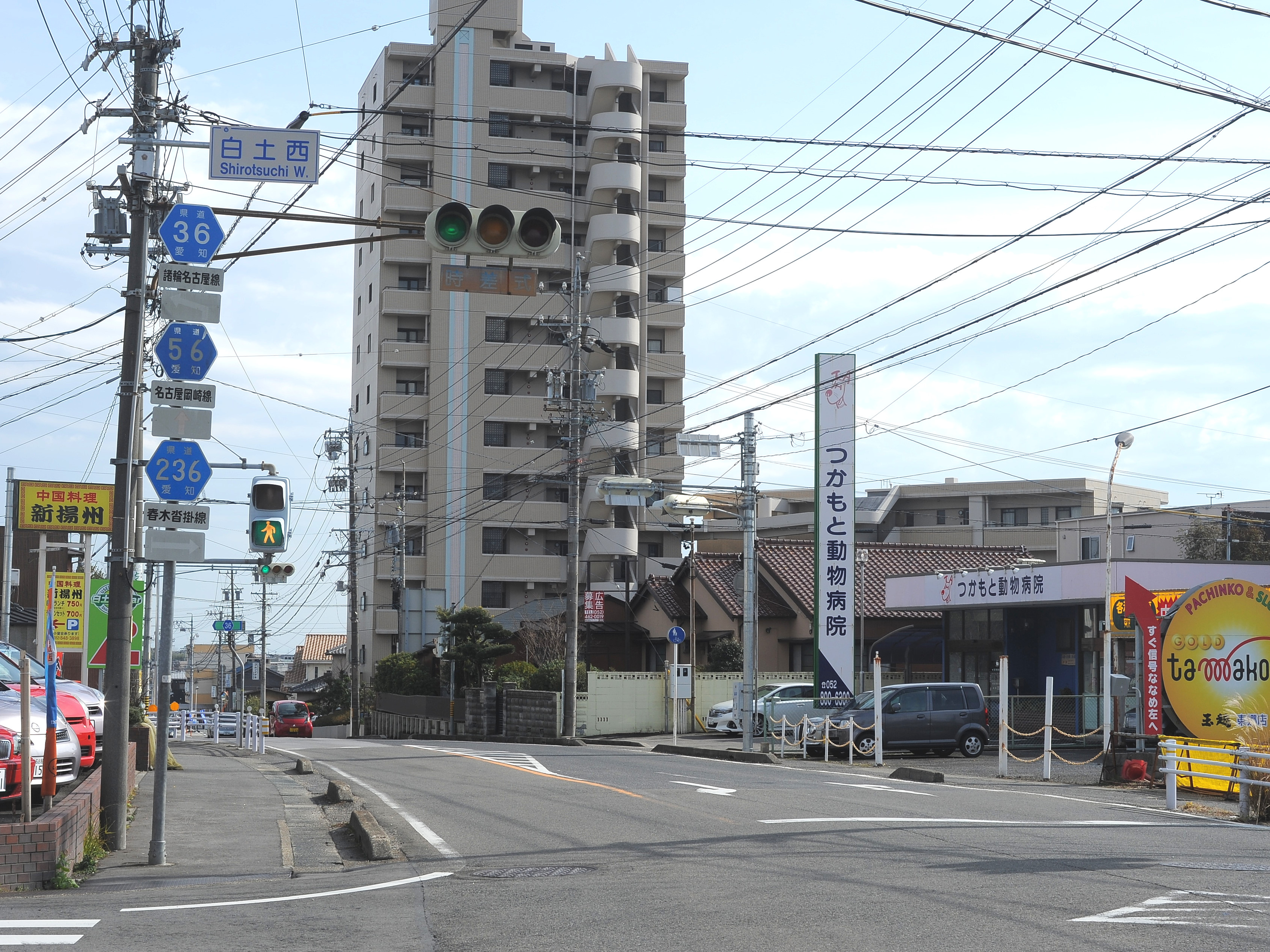 Aichi Prefectural Route 36, 56 and 236, Togo, Aichi